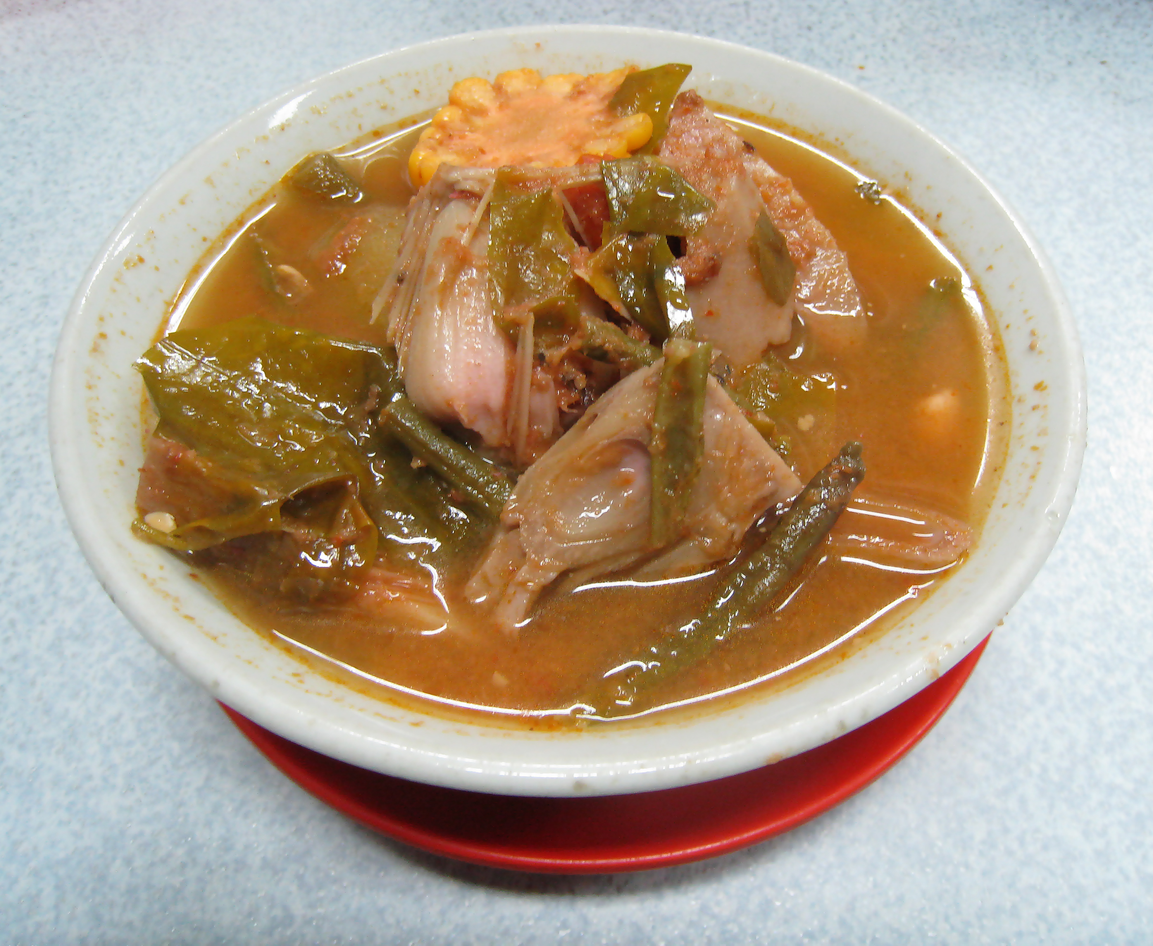 Sayur Asem, a Sundanese cuisine tamarind vegetable soup. Ampera Sundanese restaurant, Indonesia.